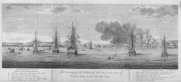 [Illustrations de A Voyage round the world in the years MDCCXL, I, II, II, IV. By George Anson. Compiled... by Richard Walter] / J. Mason, grav. ; Richard Walter, aut. du texte Éditeur : J. and P. Knapton (london) 1748